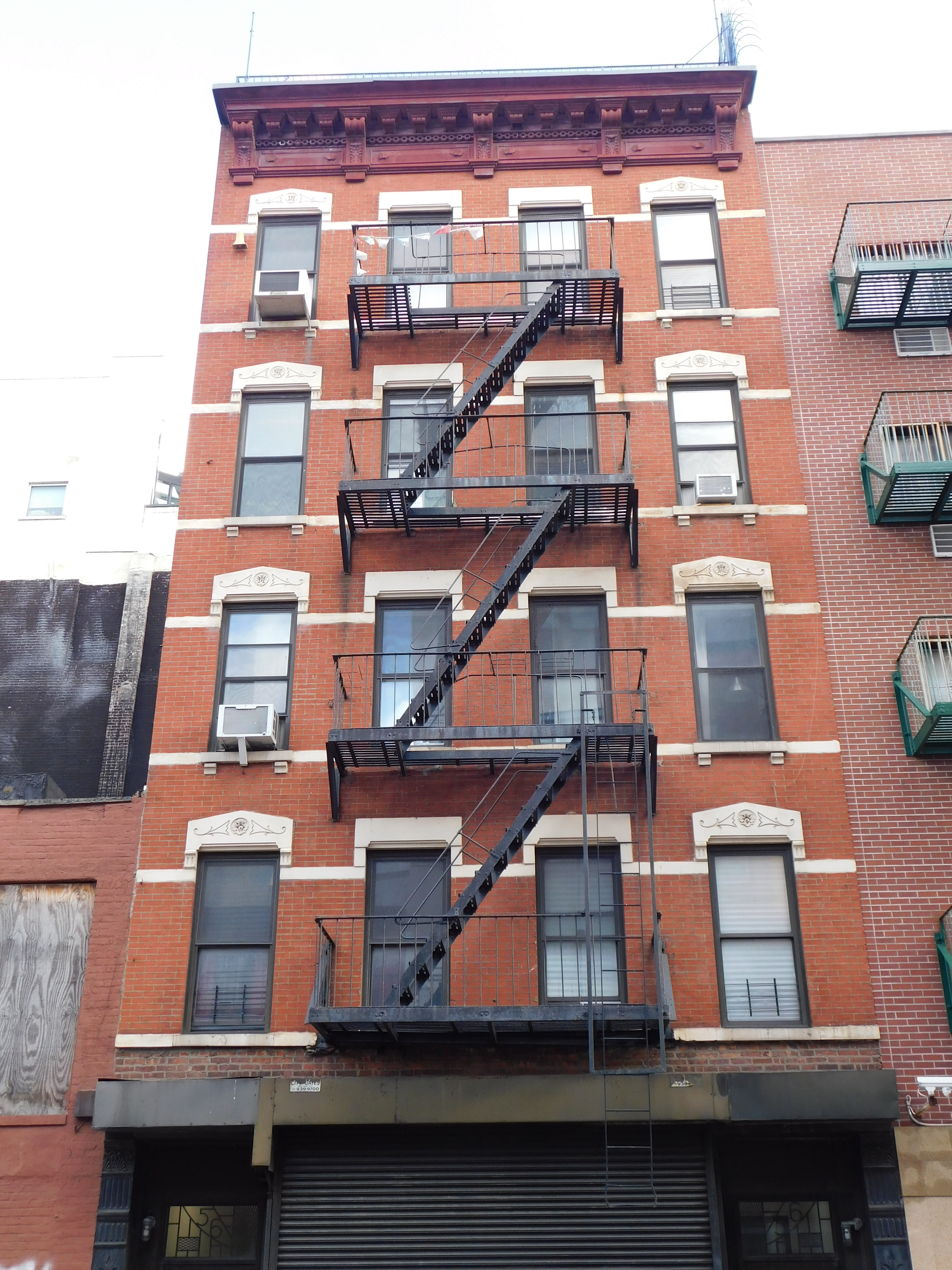 56 Ludlow Street, Manhattan, New York, former home of John Cale and others associated with The Velvet Underground